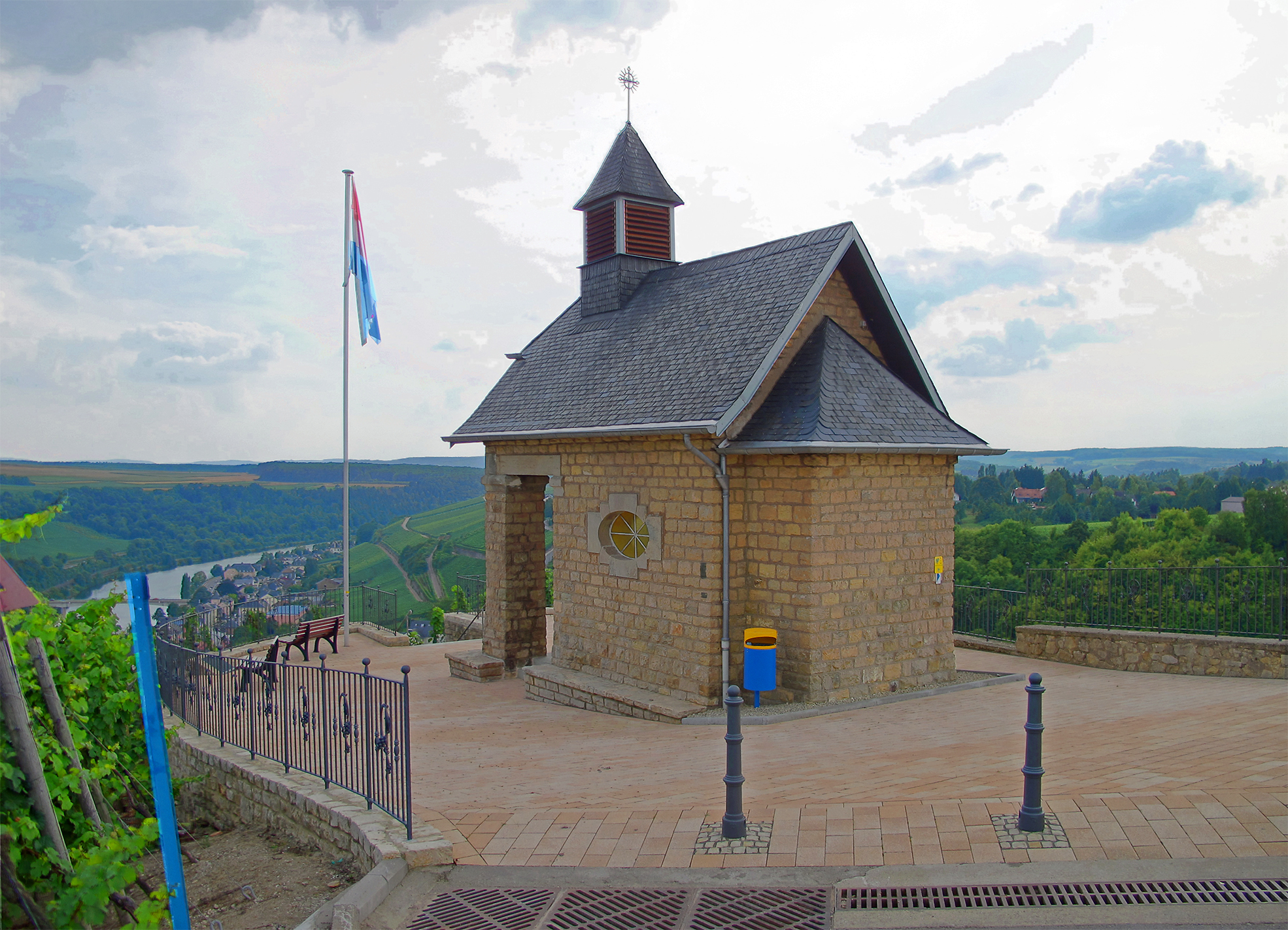 St. Donatus chapel on the Koeppchen near Wormeldange, Luxembourg